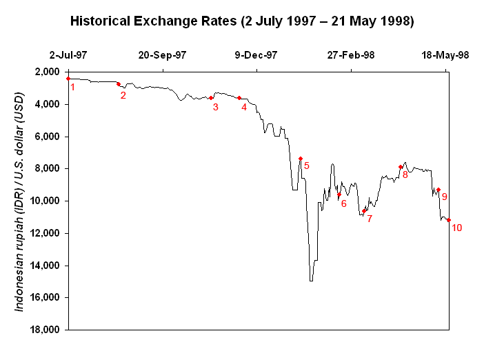 Currency exchange rate between the Indonesian rupiah and the United States dollar between 2 July 1997 and 21 May 1998. Data provided by the OANDA Corporation. See legend below for explanation of notations.